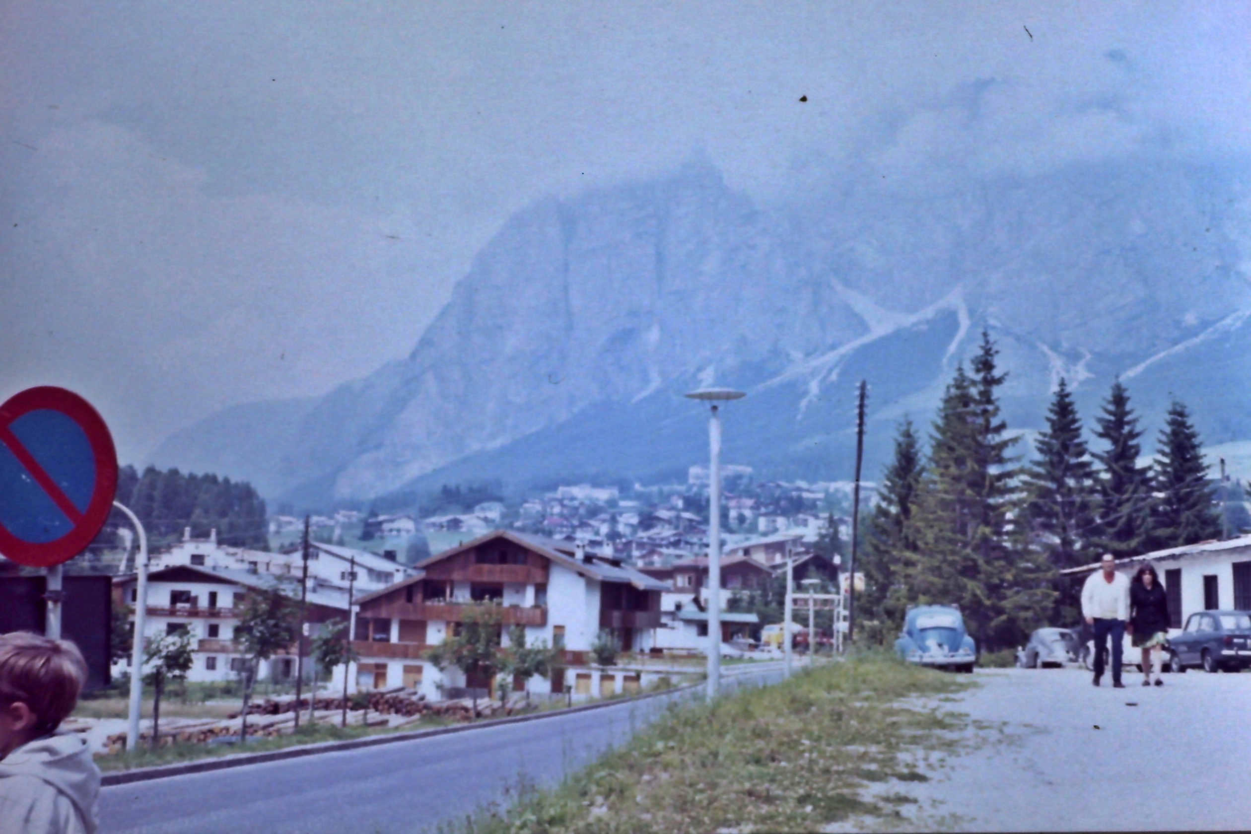 View over Cortina d'Ampezzo in summer 1971